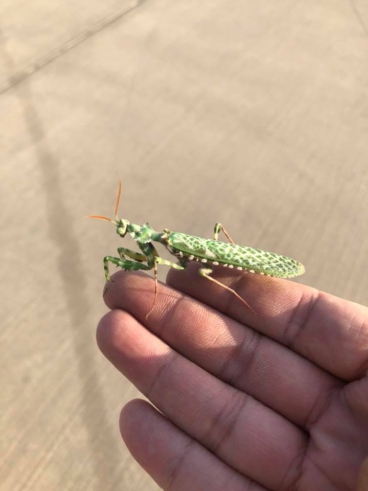 Blepharopsis mendica found in Saudi Arabia's eastern province